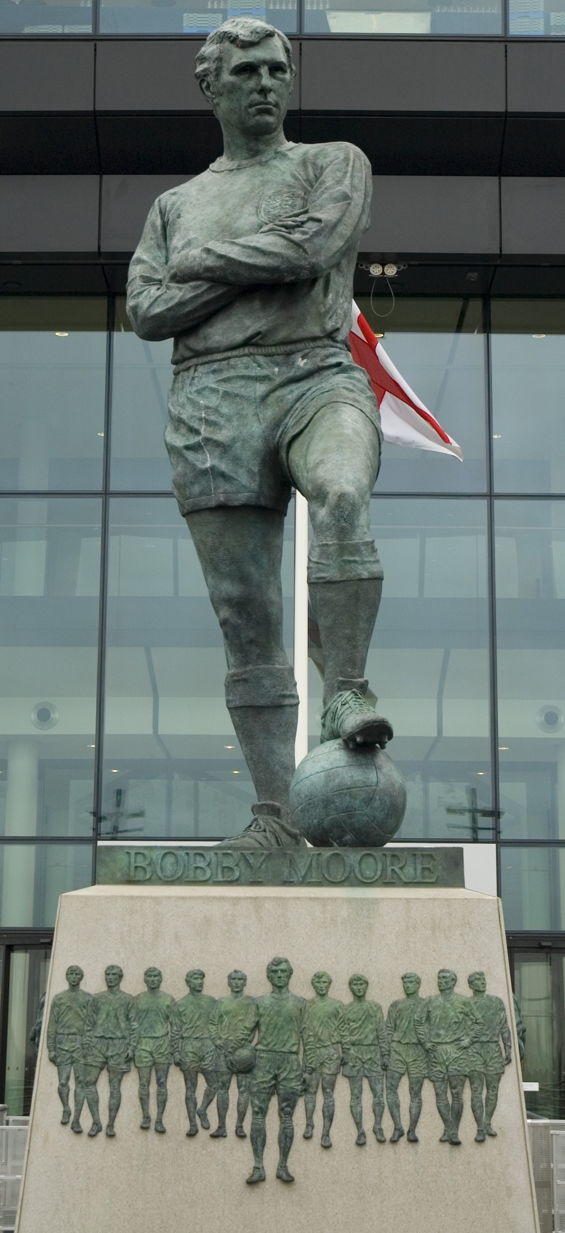 A statue of Bobby Moore. Cropped from original version.